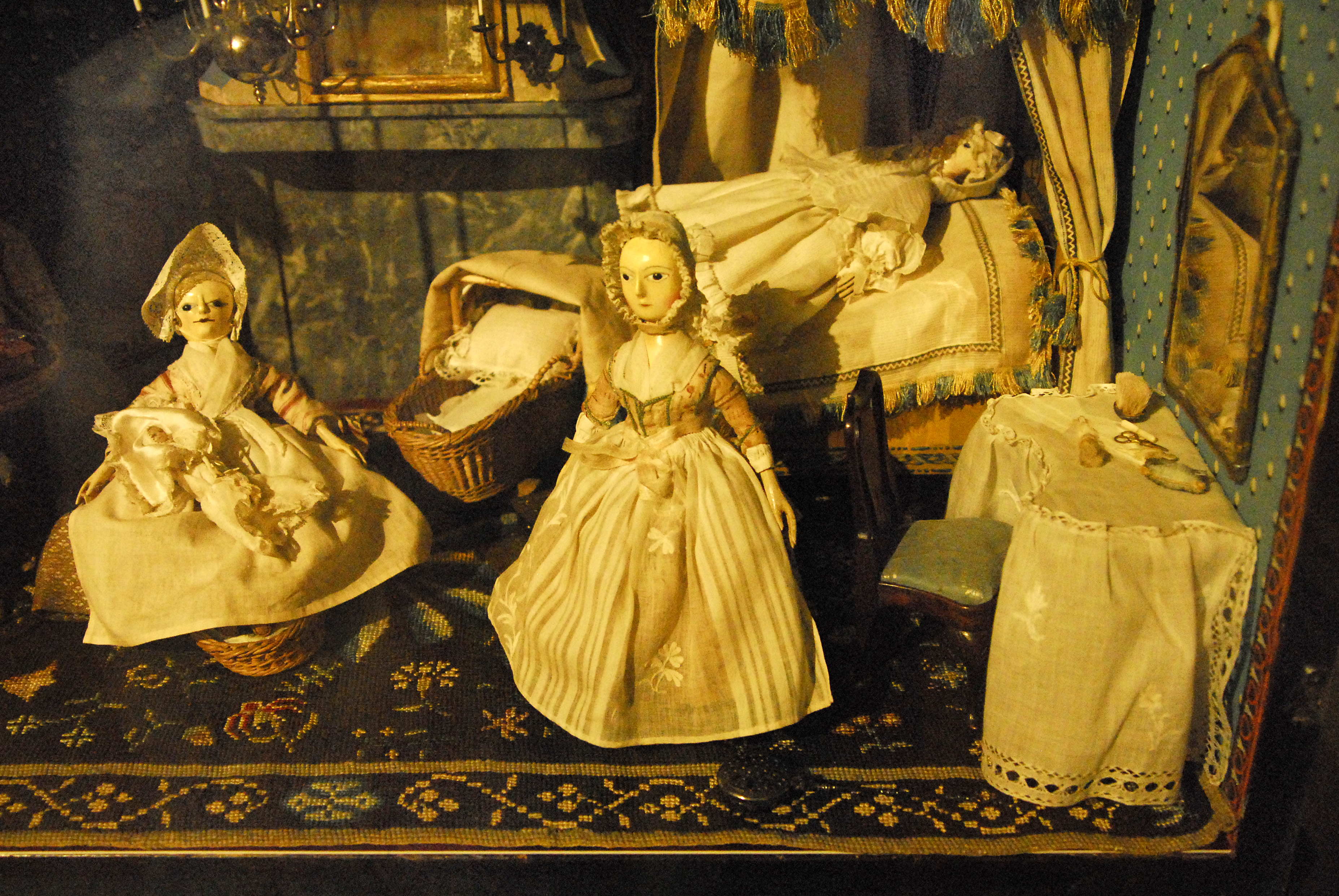 Lying-in room in the doll's house from Agnes Maria Clifford (Amsterdam 1785-1810). This doll's house is in the Stedelijk Museum Zutphen - The Netherlands.